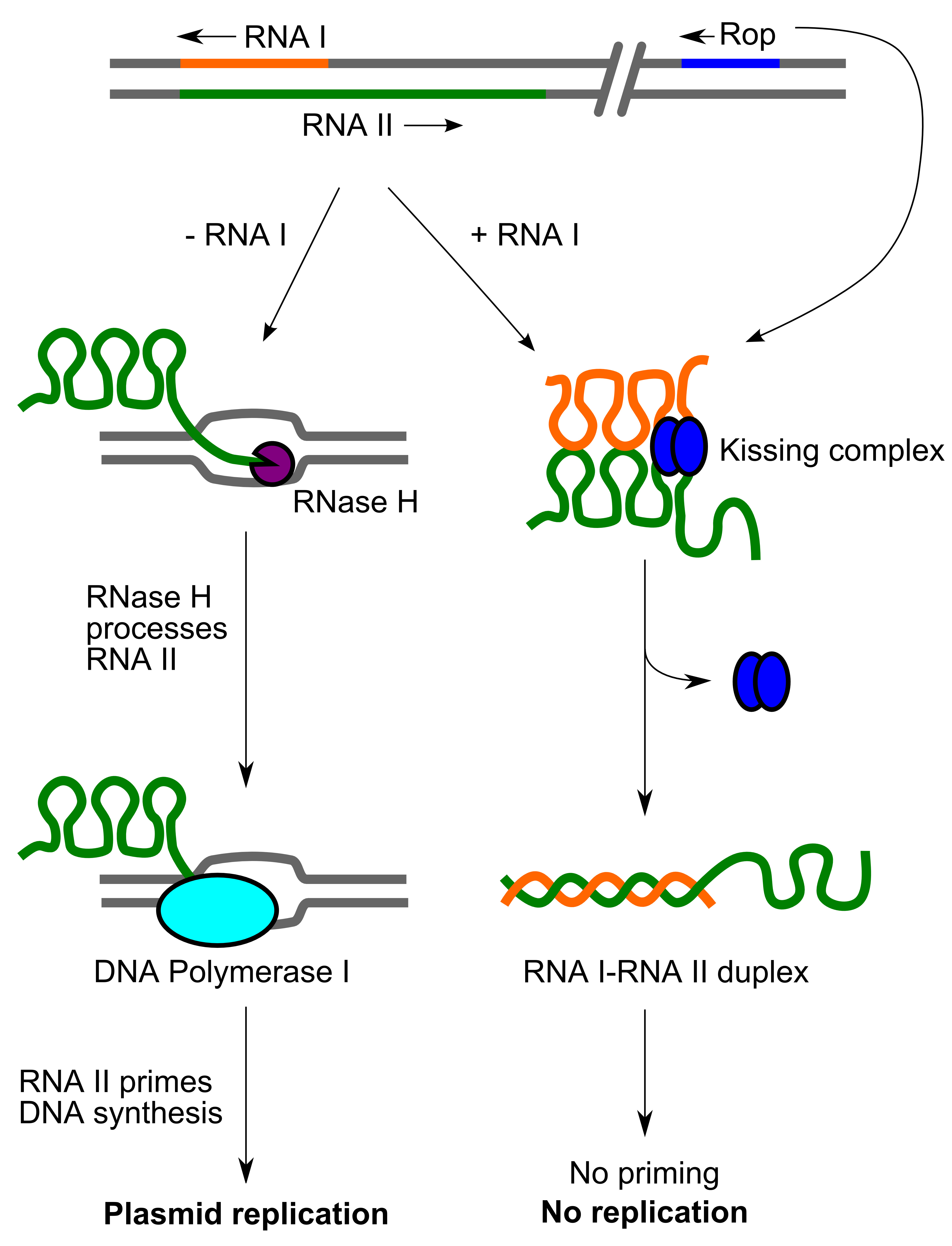 The copy number of plasmids with the ori of ColE1 is regulated by two RNA transcripts, RNA II ad RNA I. RNA II is needed for the initiation of replication, whereas RNA I acts as its repressor. The nascent RNA II, whose transcription is initiated 555 bp upstream of the replication origin, forms a hybrid with the template DNA near the ori. RNase H cleaves the RNA strand and exposes a 3' hydroxyl group. The processed RNA II can then serve as a primer for DNA synthesis by DNA Polymerase I. The primer formation is inhibited by RNA I, a shorter transcript which is complementary to the 5` end of RNA II. When RNA I is present, it forms a hybrid with RNA II. This alters the folding of RNA II so that the DNA-RNA hybrid is not stabilized and cleavage does not occur. The binding of RNA I to RNA II is enhanced by the rop protein.